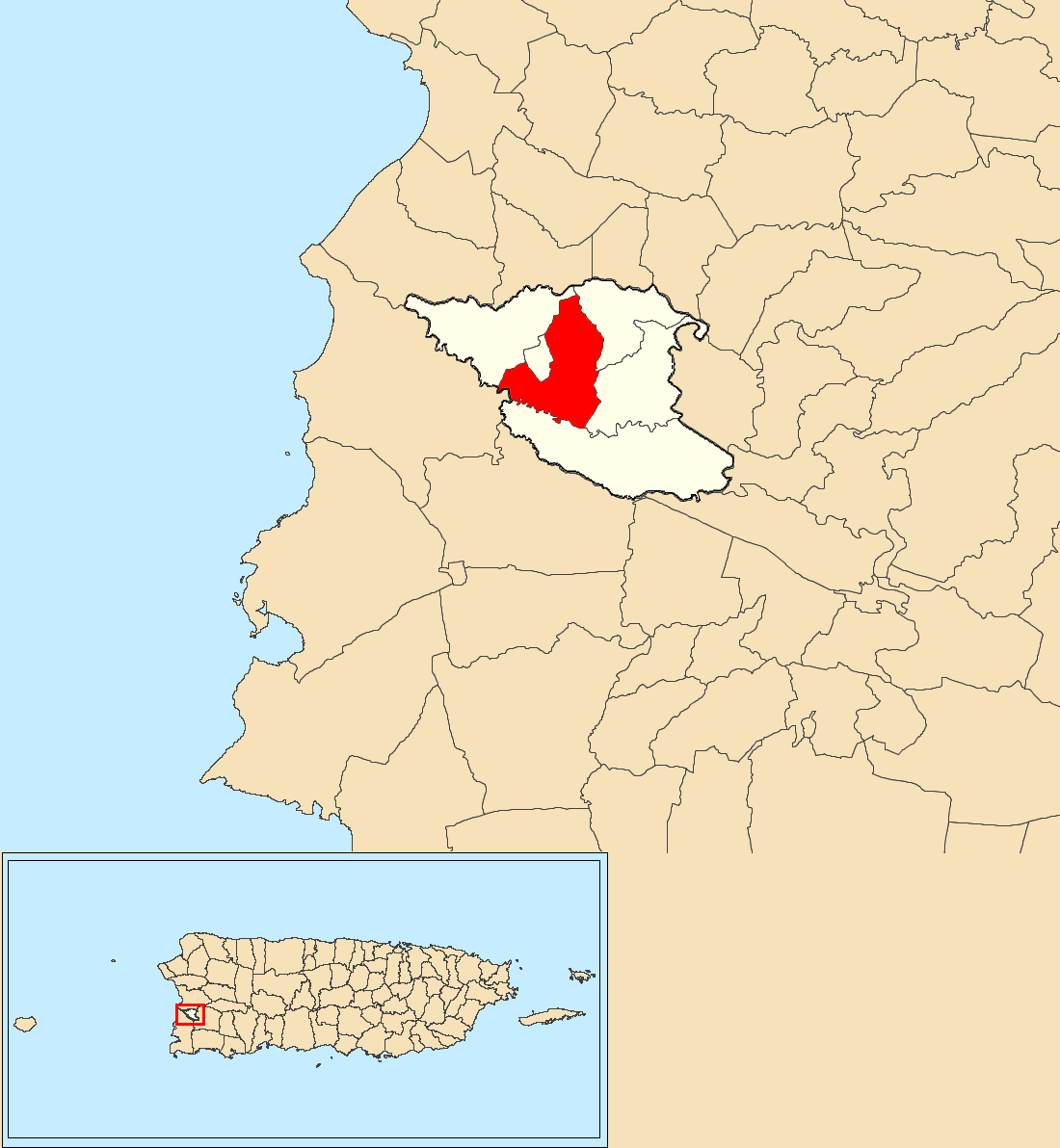 Hormigueros, Hormigueros, Puerto Rico locator map